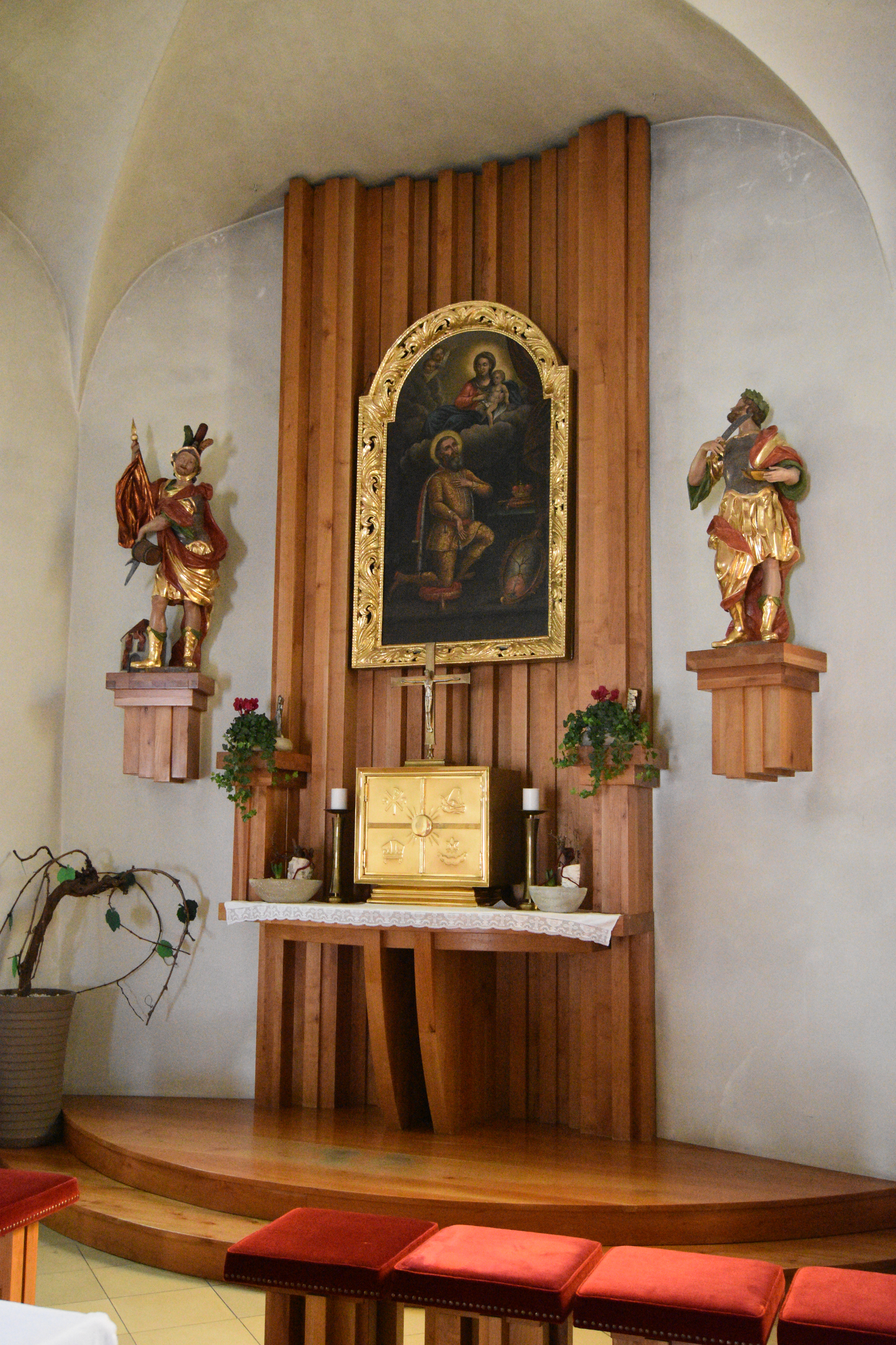 Church Neuhaus am Klausenbach - Interior